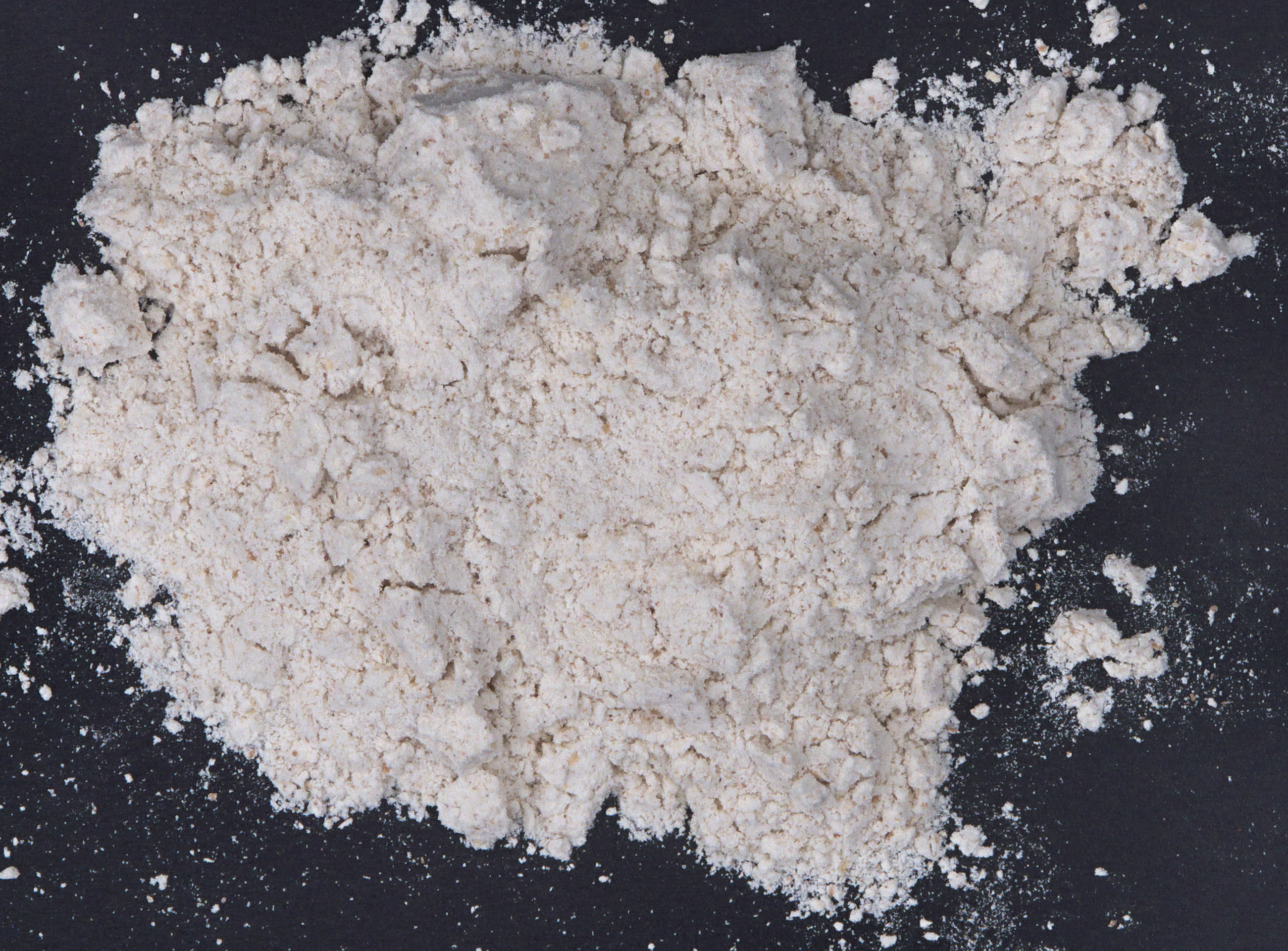 Lemaire flour: white flour with powder bran from wheat